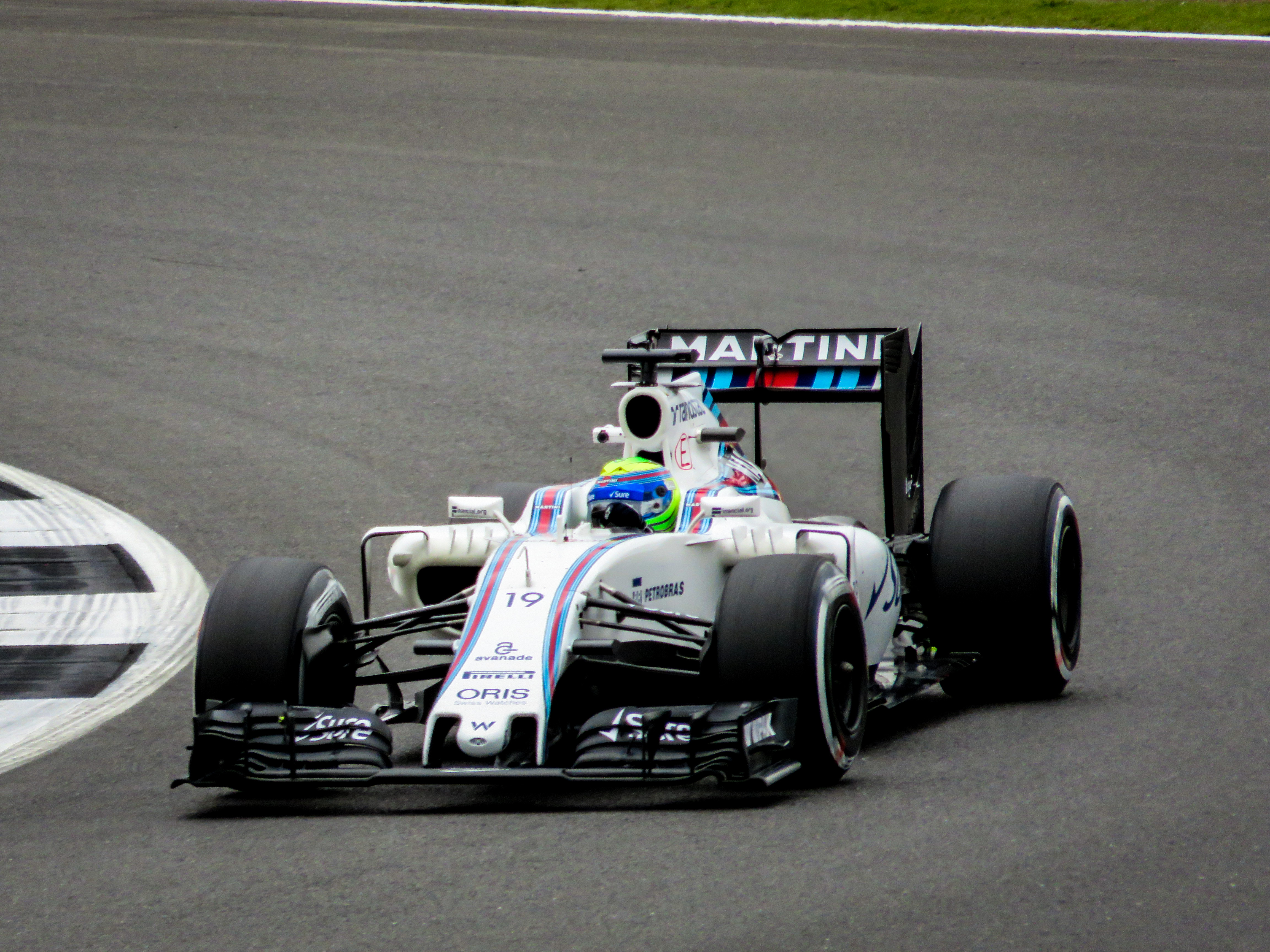 F1 - Williams F1 - Felipe Massa